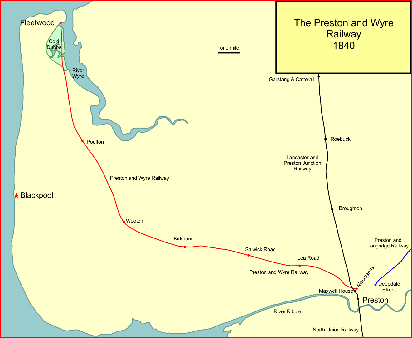 System map of the Preston and Wyre Railway, Lancashire, England, in 1840